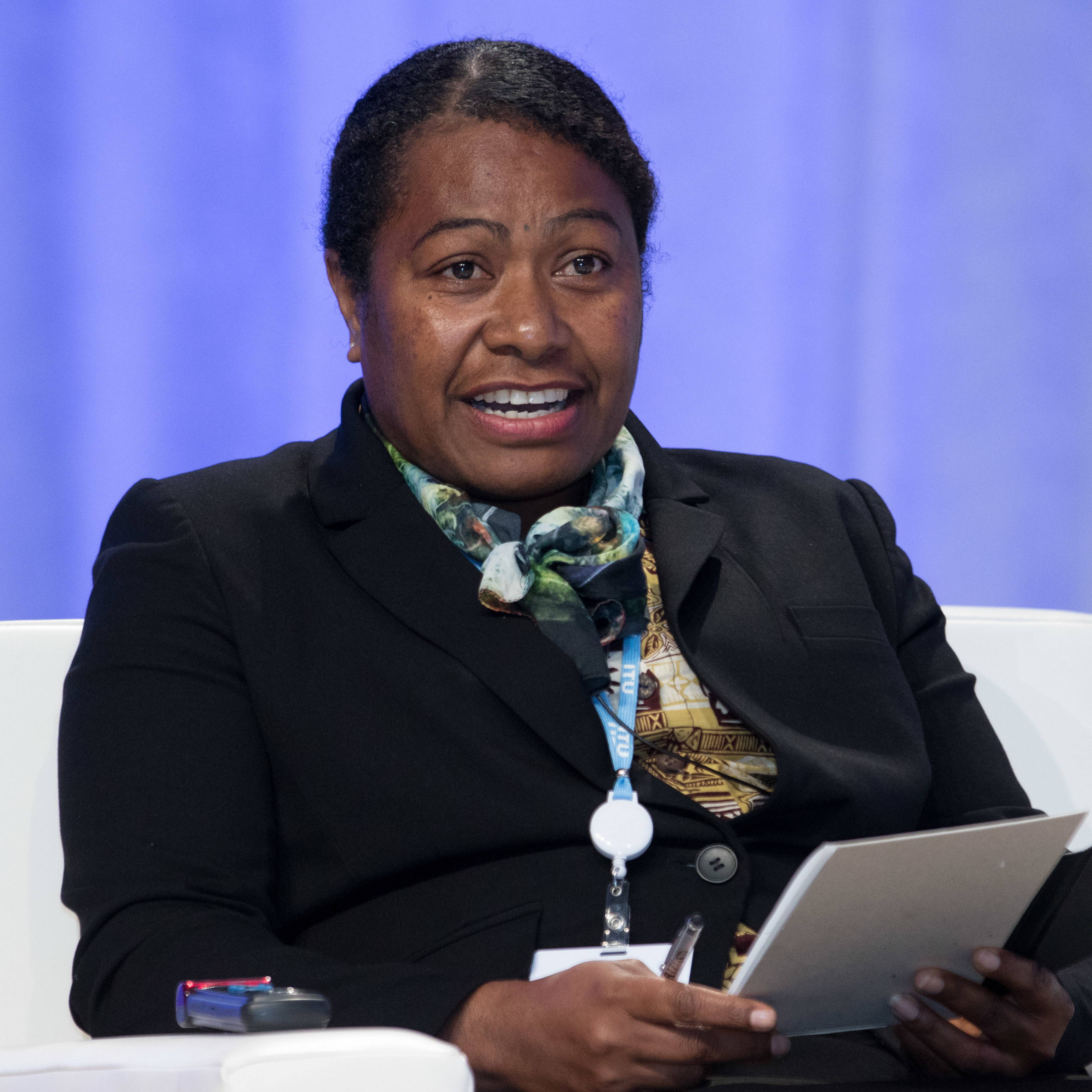 Ms. Dalsie Green Baniala , CEO/Regulator , Telecommunications and Radiocommunications Regulator’s Office, Vanuatu REGULATOR TRACK ©ITU/BIS P.Hanna